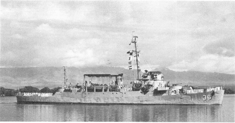 The former U.S. Navy high-speed transport USS Bull (APD-78) in the Republic of China service as Lu Shan (PF-36).